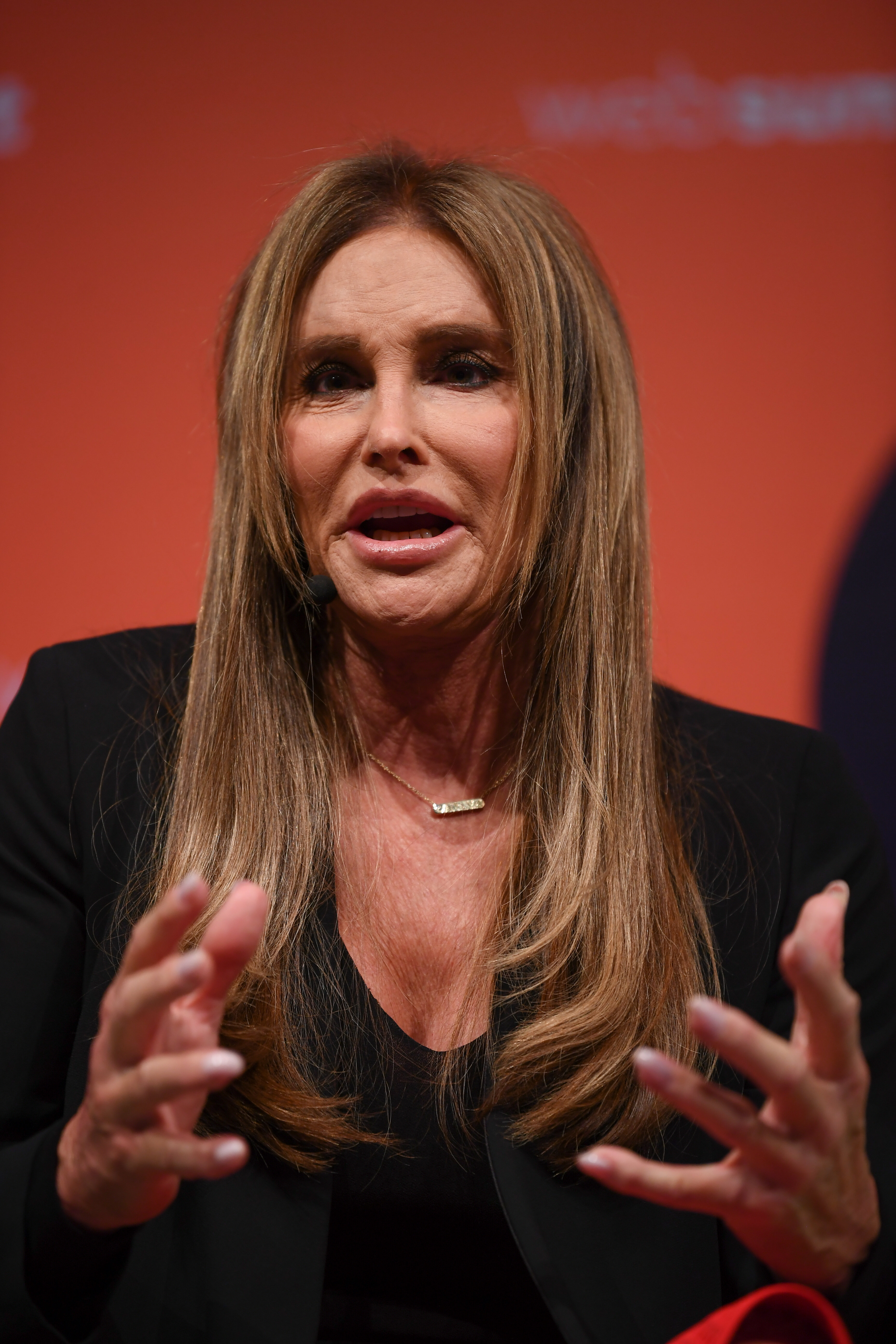 9 November 2017; Caitlyn Jenner, Olympian & Advocate of Transgender Rights, on Future Societies Stage during day three of Web Summit 2017 at Altice Arena in Lisbon. Photo by Stephen McCarthy/Web Summit via Sportsfile